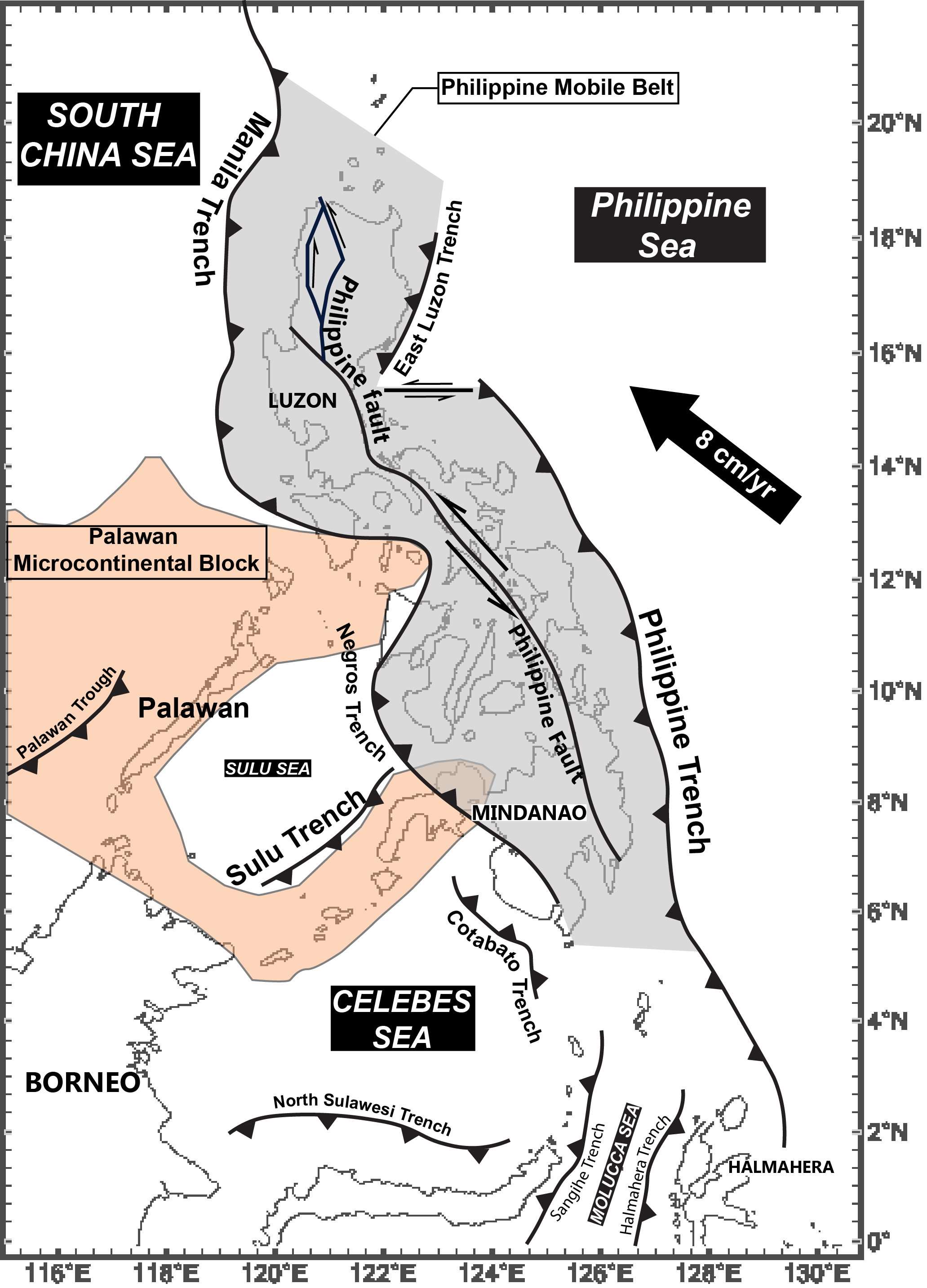 Source of data comes from, and map is modified from David et al., 1997; Hall, 1987; Aurelio, 2000.